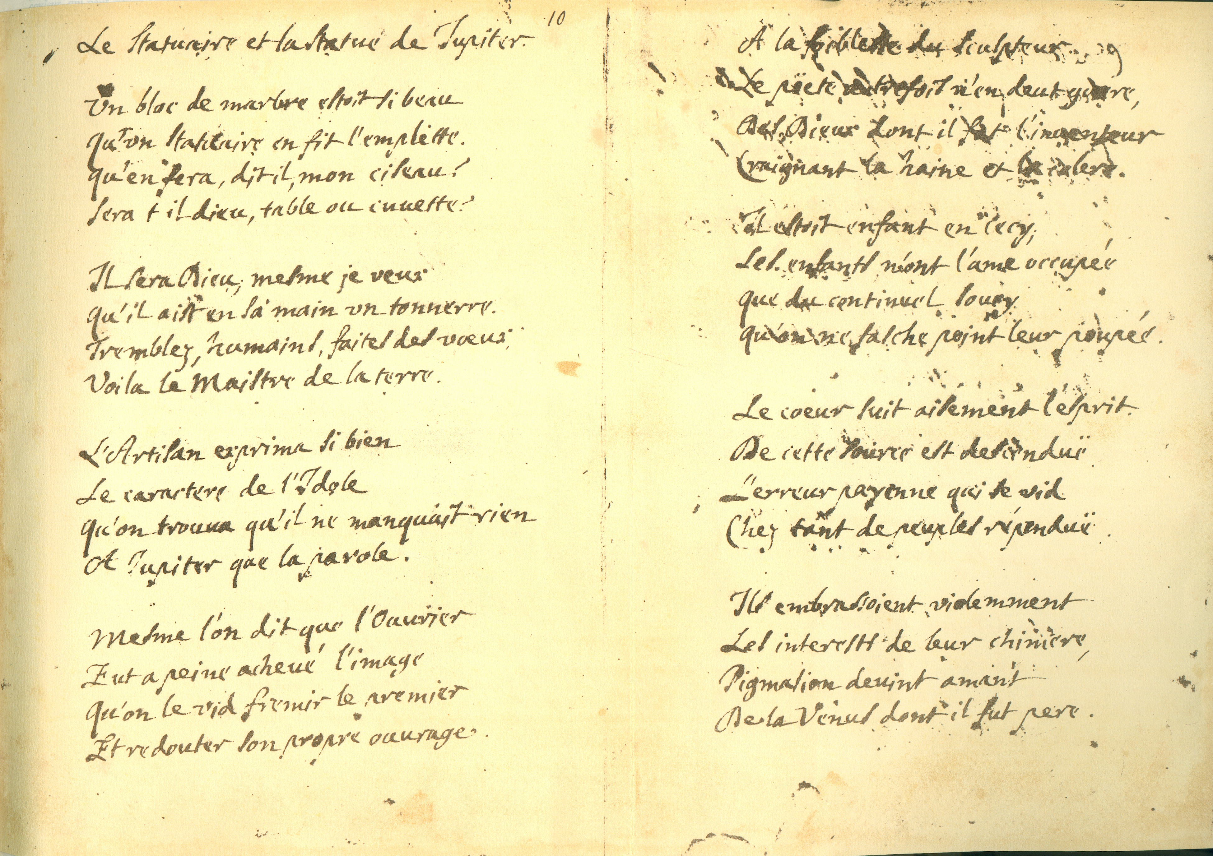 Facsimile of one of the very few manuscripts by Jean de La Fontaine (1621-1695): Fable IX-6 "The Sculptor and the Statue of Jupiter". National Library of France. (Published in facsimile in the (French) Dictionnaire encyclopédique Quillet, Paris, 1953).